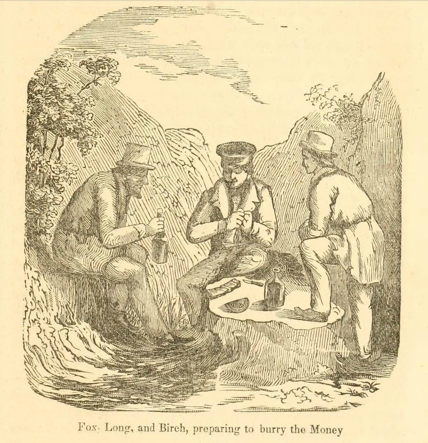 Illustration of Banditti Fox, Long, And Birch Robert H. Birch "Getting Teady To Bury The Money" from the Edward Bonney book, Banditti Of The Prairies